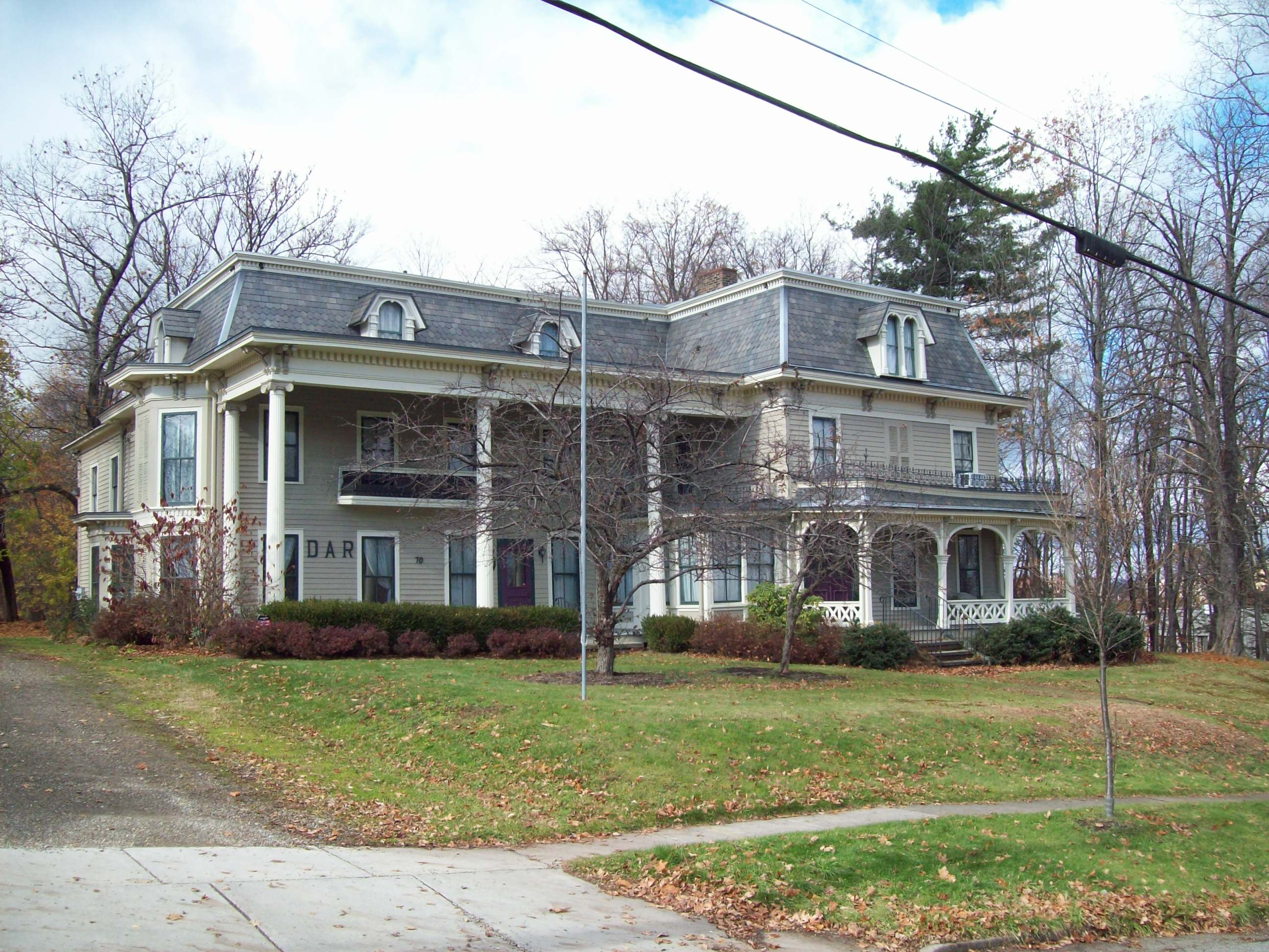 Partridge-Sheldon House, Jamestown NY, November 2010